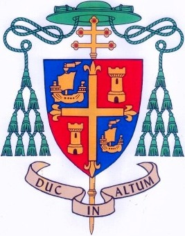 Stemma Arcivescovo Arthur Roche